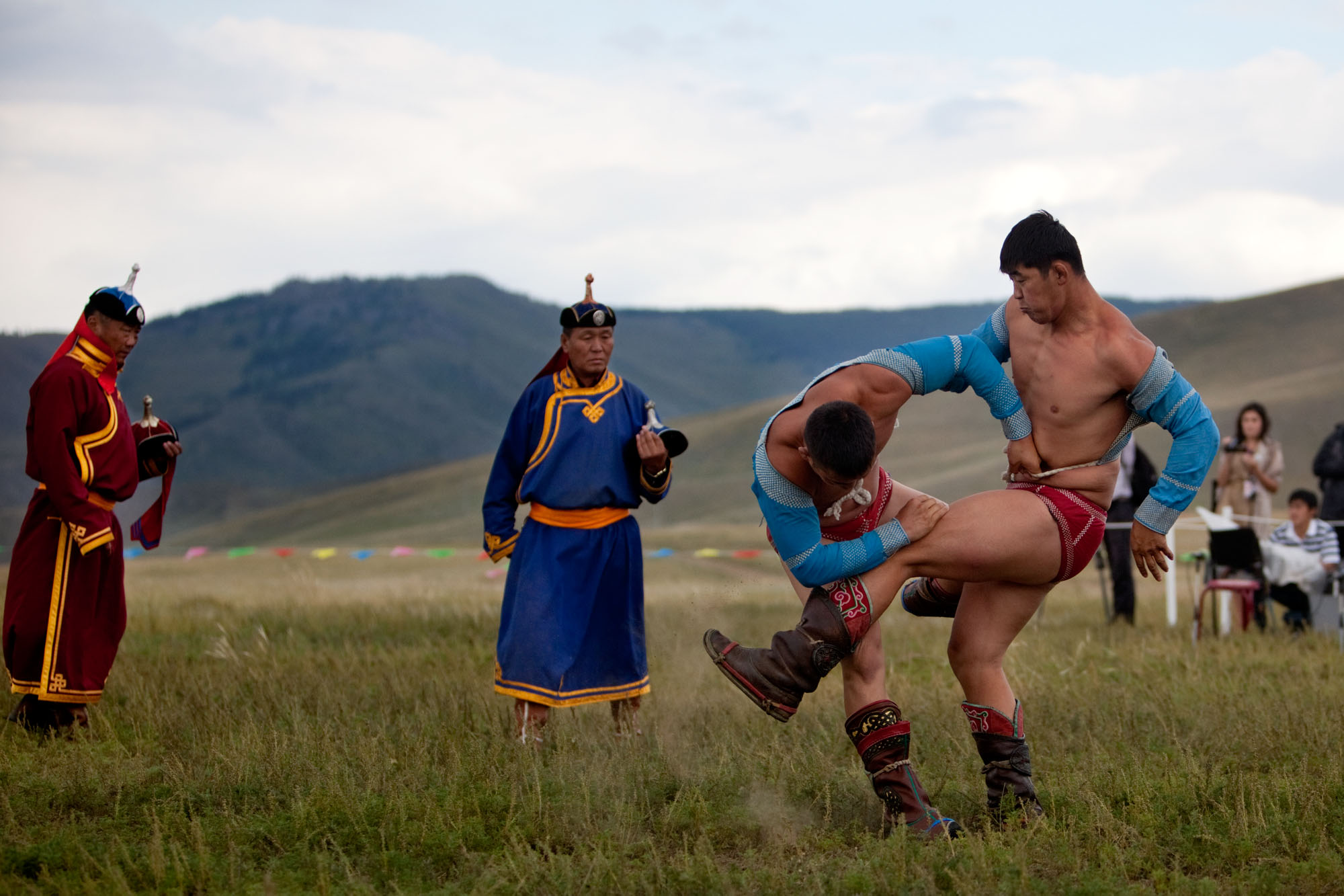 Wrestlers demonstrate traditional Mongolian wrestling at a cultural demonstration during Vice President Joe Biden's visit, outside Ulaanbaatar, Mongolia, Aug. 22, 2011.